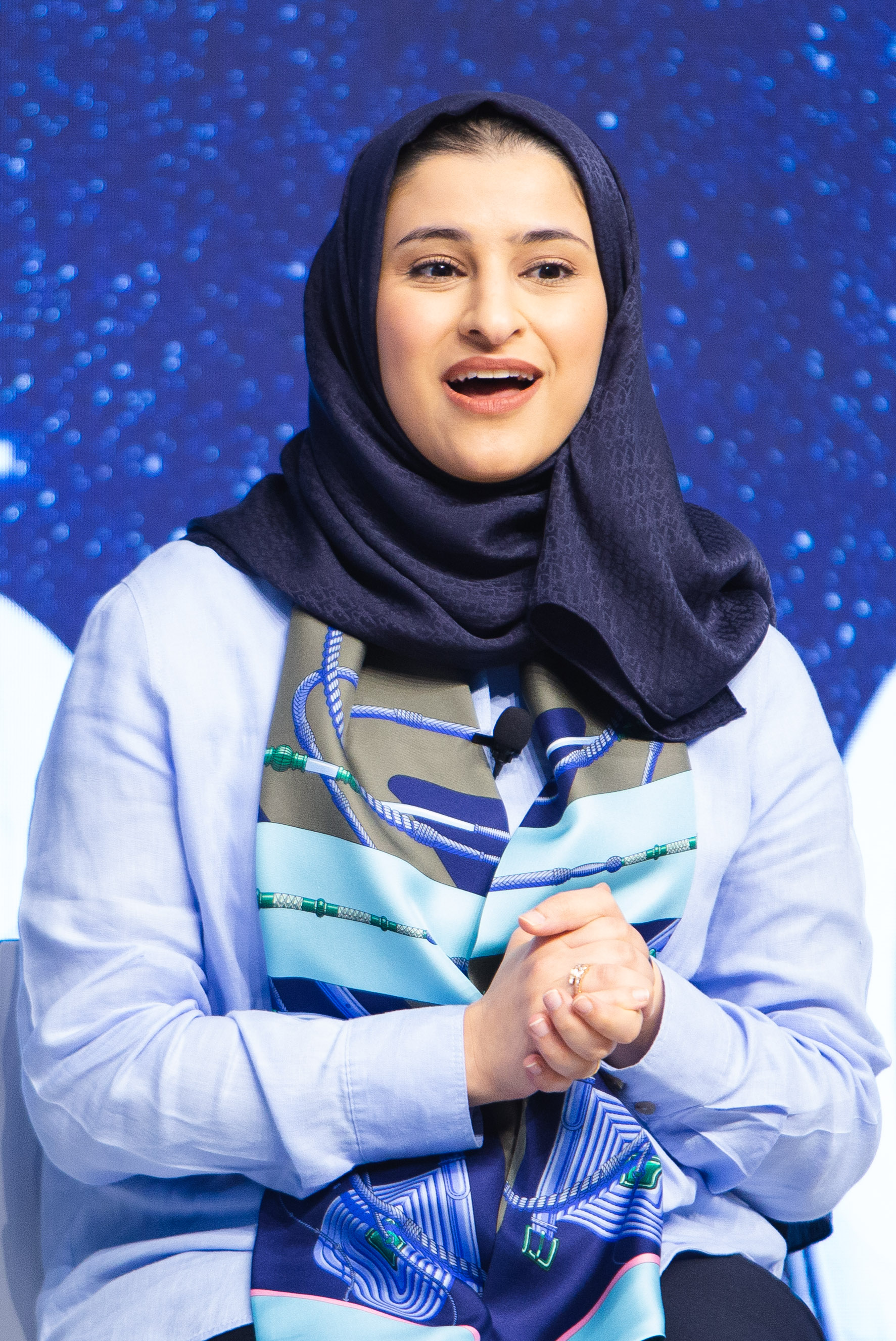 Sarah bint Yousif Al-Amiri, Minister of State for Advanced Sciences of the United Arab Emirates; Young Global Leader capture during the Session "Sustaining the Space Economy " at the World Economic Forum - Annual Meeting of the New Champions 2019 in Dalian, People's Republic of China